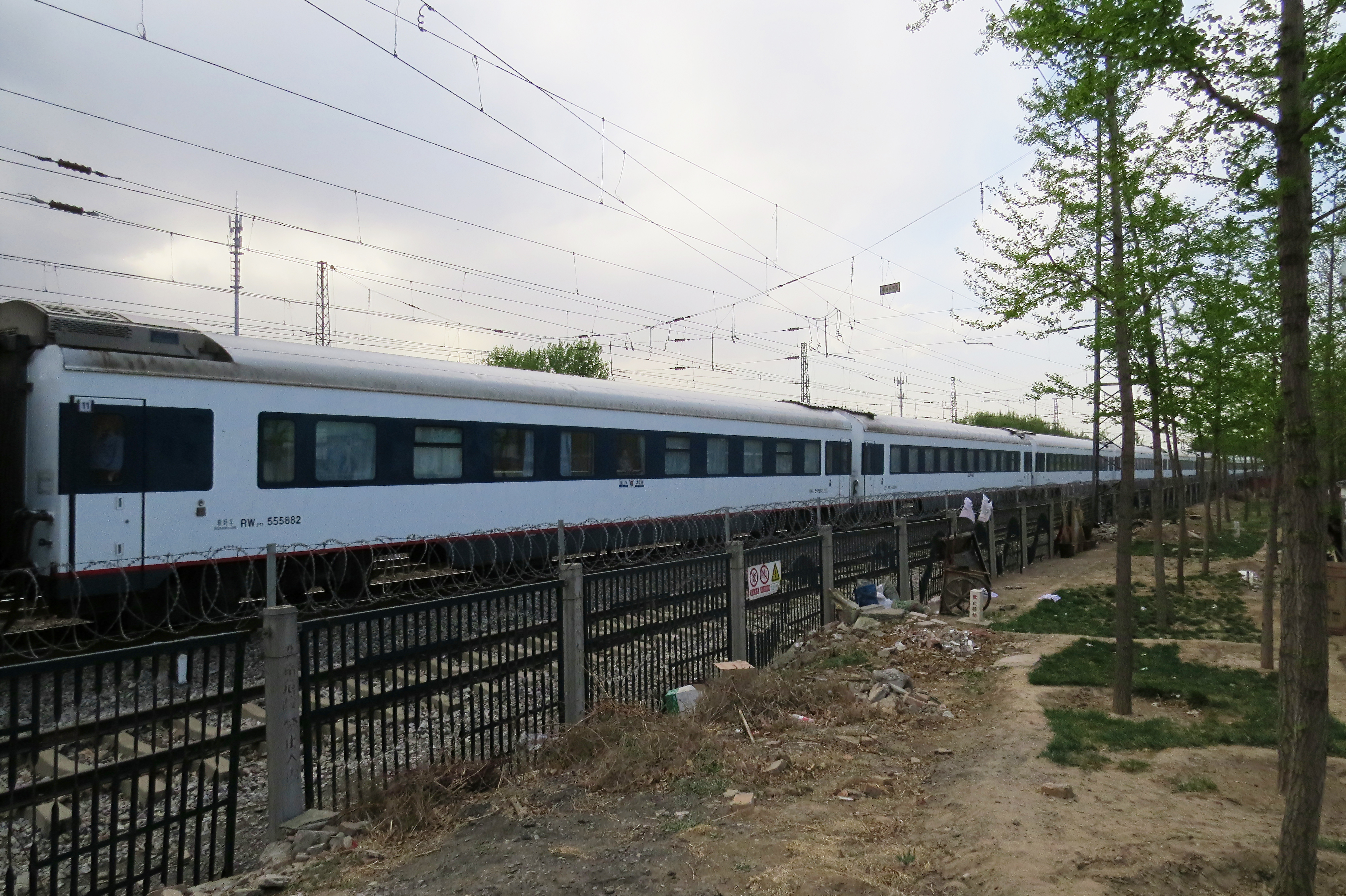 Z307 to Xiamen. Taken at Xingwang Park.